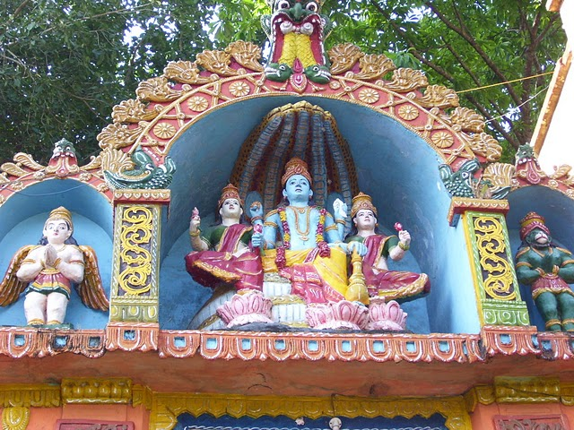 Statue of Janardanaswamy